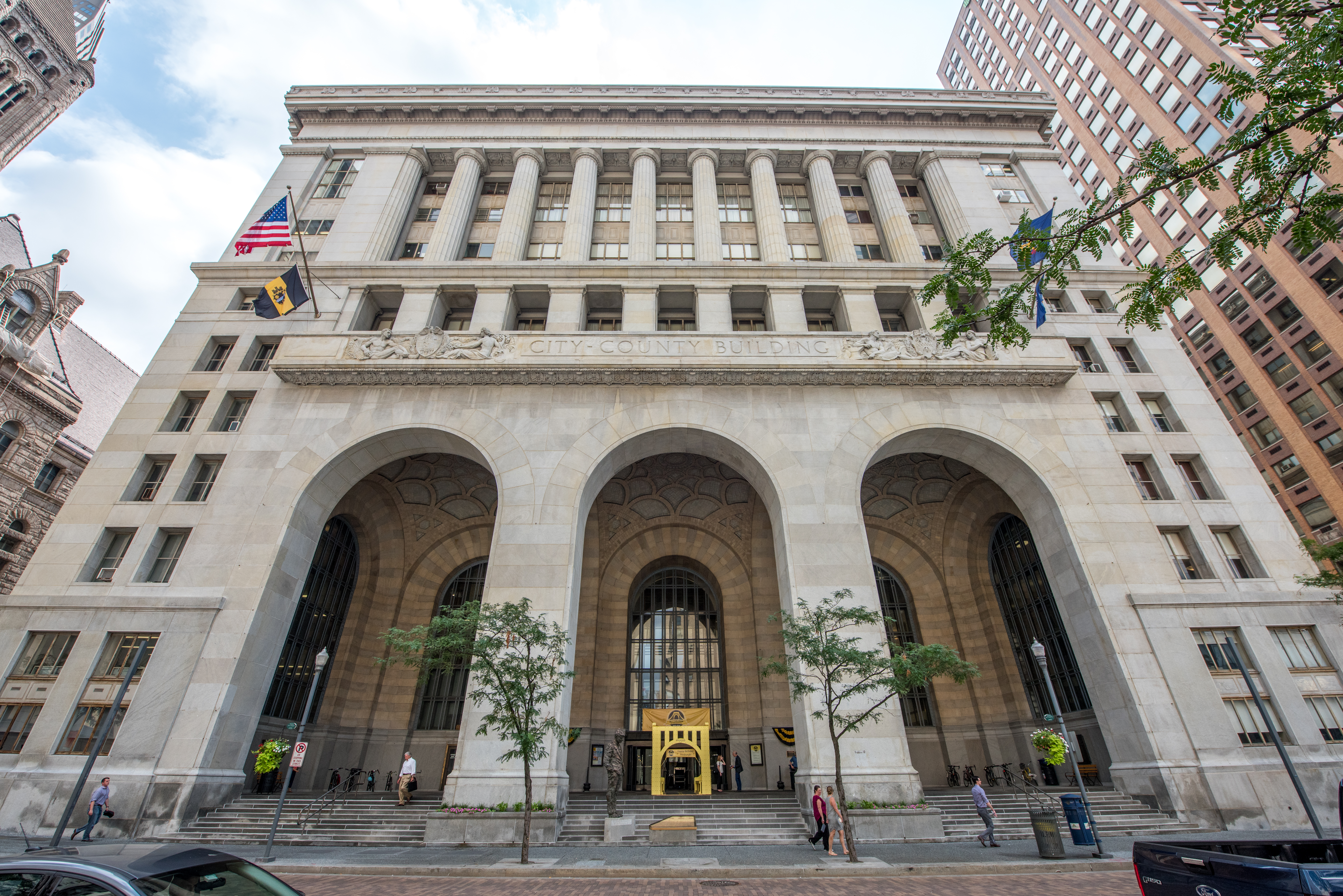 Built from 1915-1917, the Pittsburgh City-County Building is the seat of government of the City of Pittsburgh.